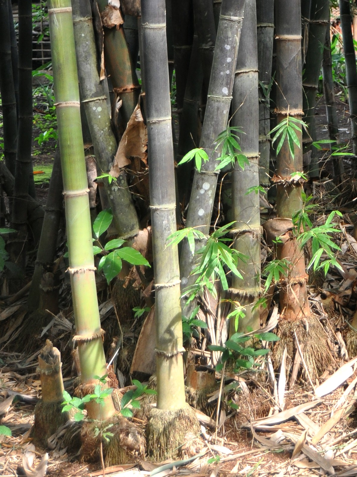 Black bamboo (Gigantochloa atroviolacea); lower culms. From Kuningan, West Java, Indonesia.